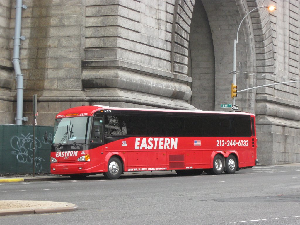 Coach USA Eastern Shuttle #58279 in the new Eastern Shuttle livery, reassigned to this service from Megabus (where it had previously operated), lays over by the foot of the Manhattan Bridge.